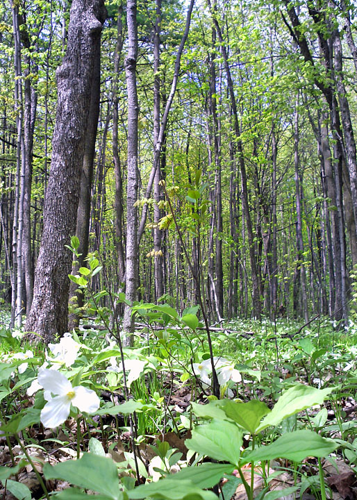 Forest-peterborough-Ontario-canada-[foto by paul b. toman]